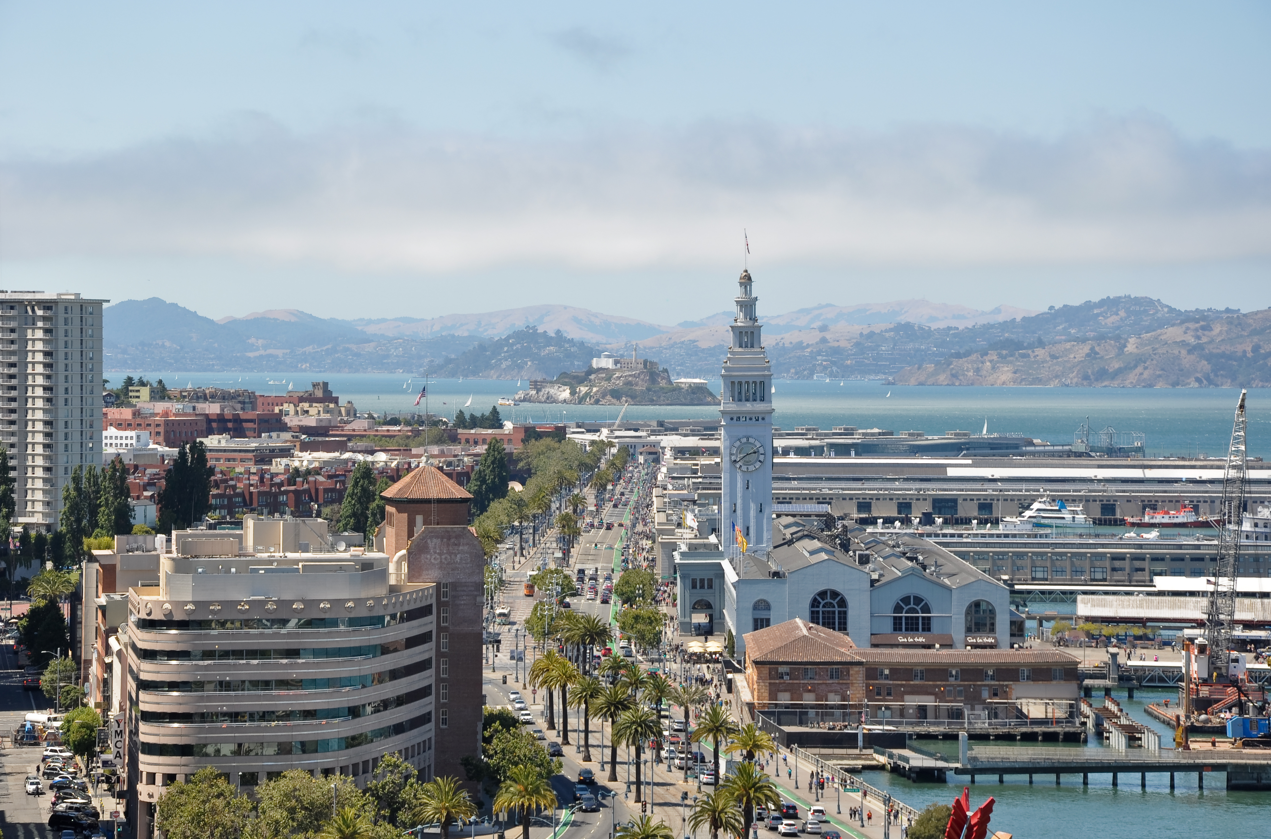 A view of the Embarcadero in San Francisco, with the Ferry Building at the right and Alcatraz Island in the background.